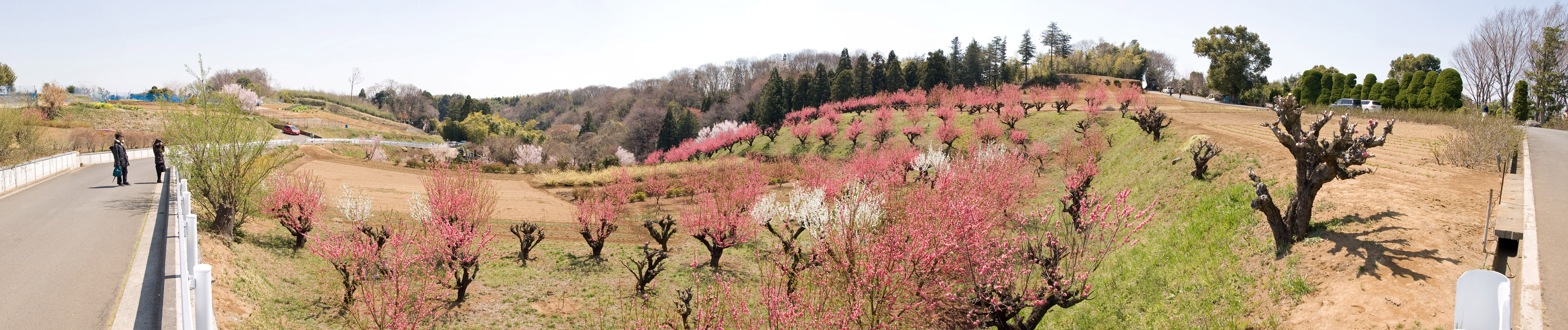 Agriculture-only area in Motoishikawa-cho(元石川町、もといしかわちょう), Aoba Ward, Yokohama City, Kanagawa pref., Japan.